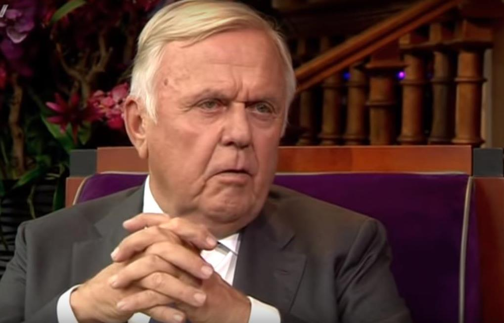 Dutch TV show Business Class. Host Harry Mens